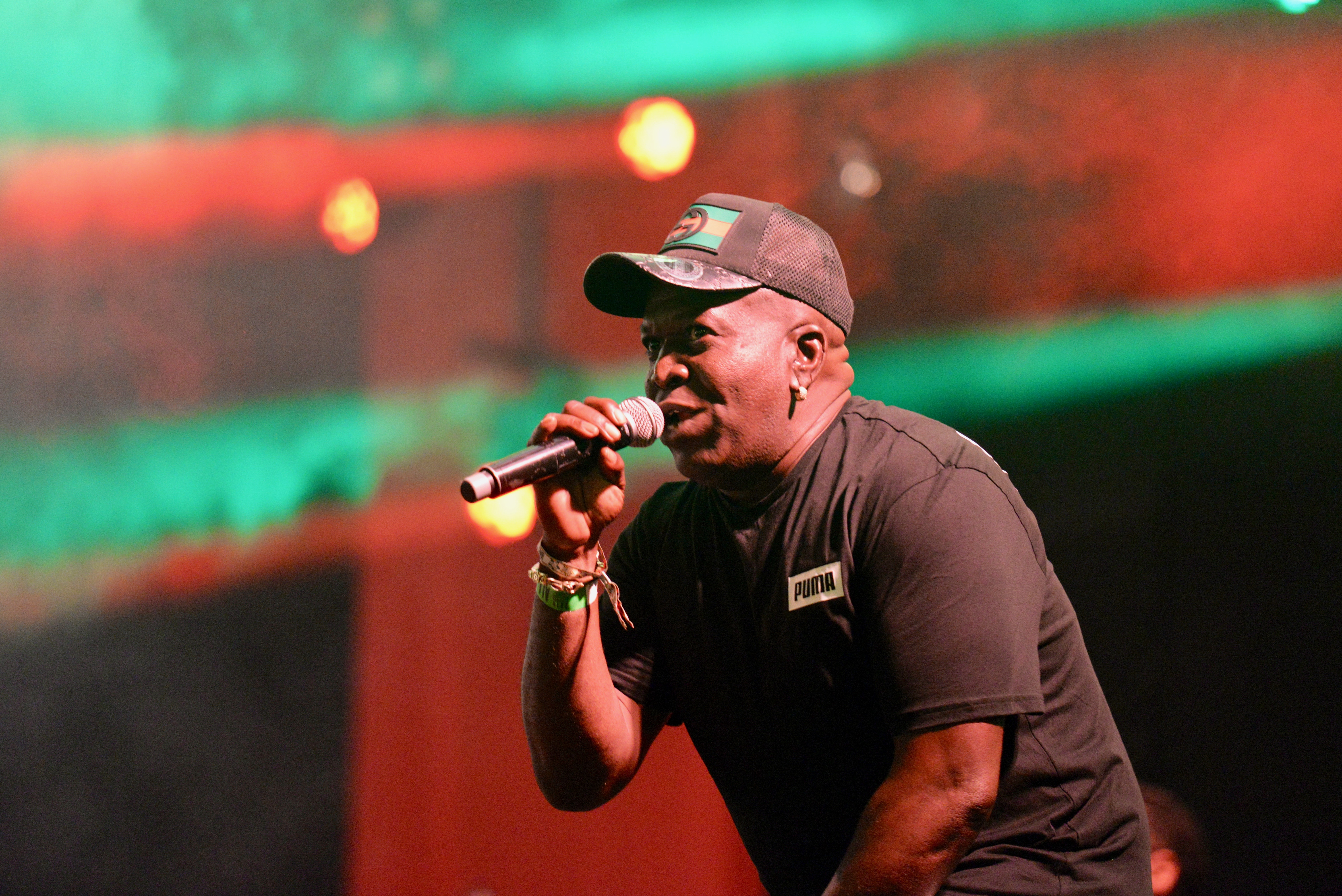 Barrington Levy in concert at Reggae Geel August 3 2018